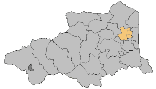 Cantons of Perpignan in the French Pyrénées-Orientales department.